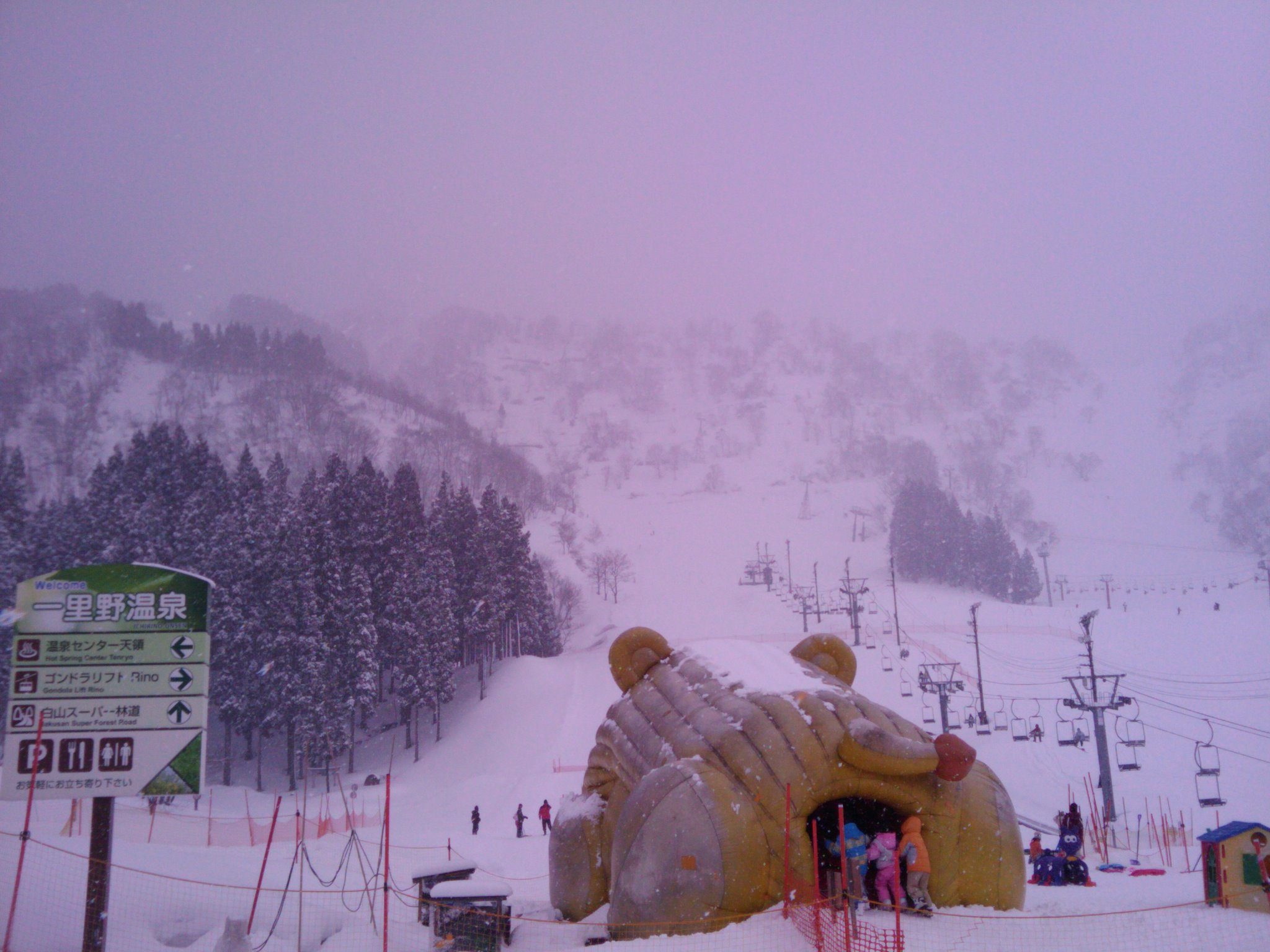 Hakusan Ichirino Onsen Ski (Hakusan, Ishikawa, Japan)